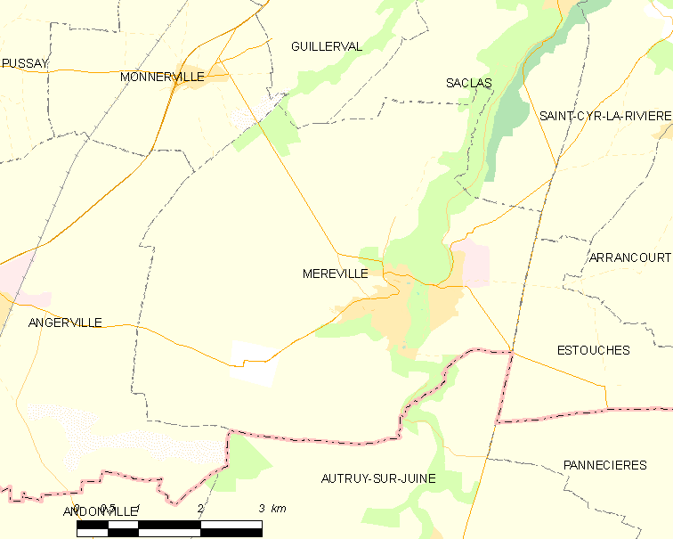 Map of French municipality Méréville